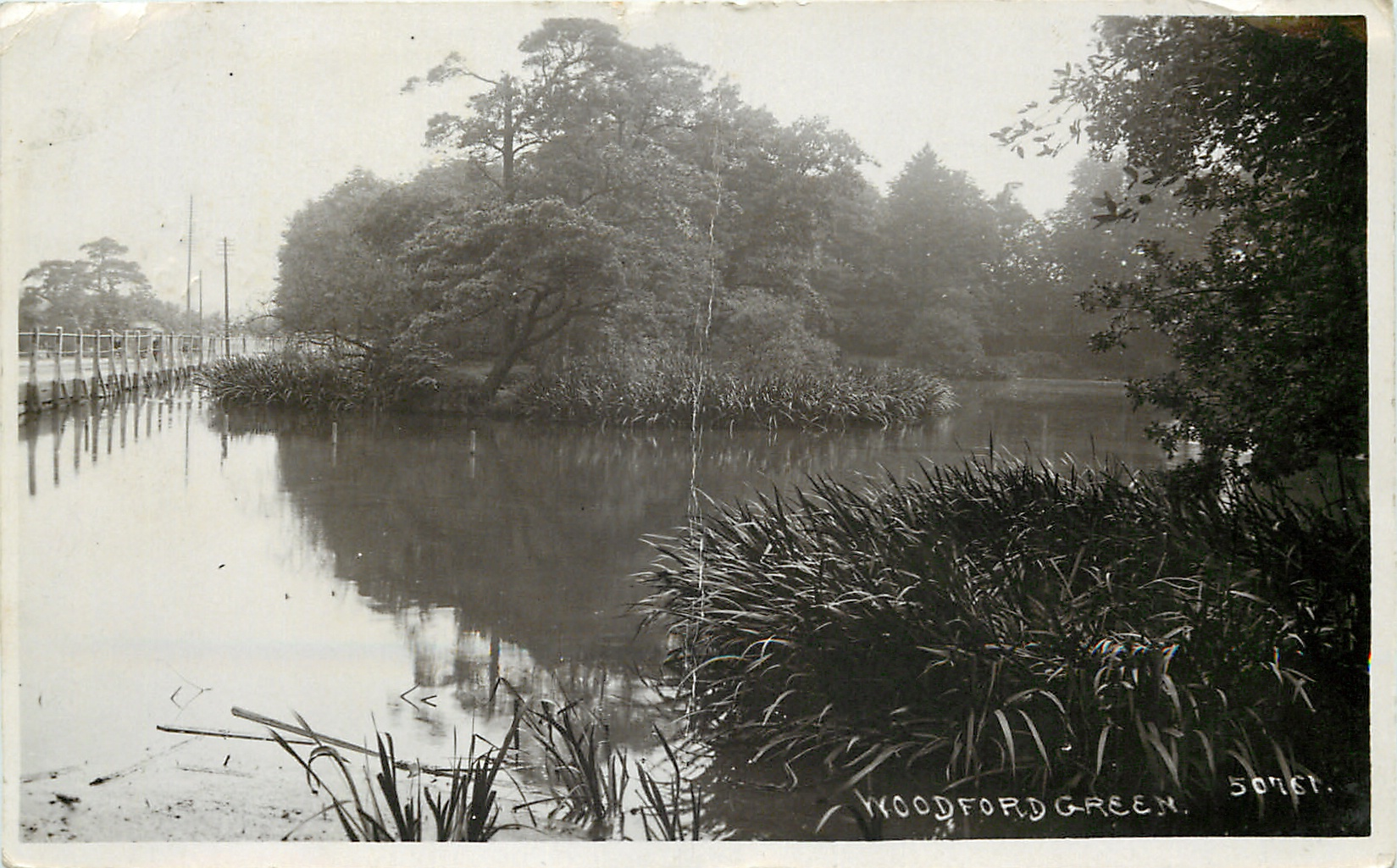 Woodford Green, 1913 or earlier